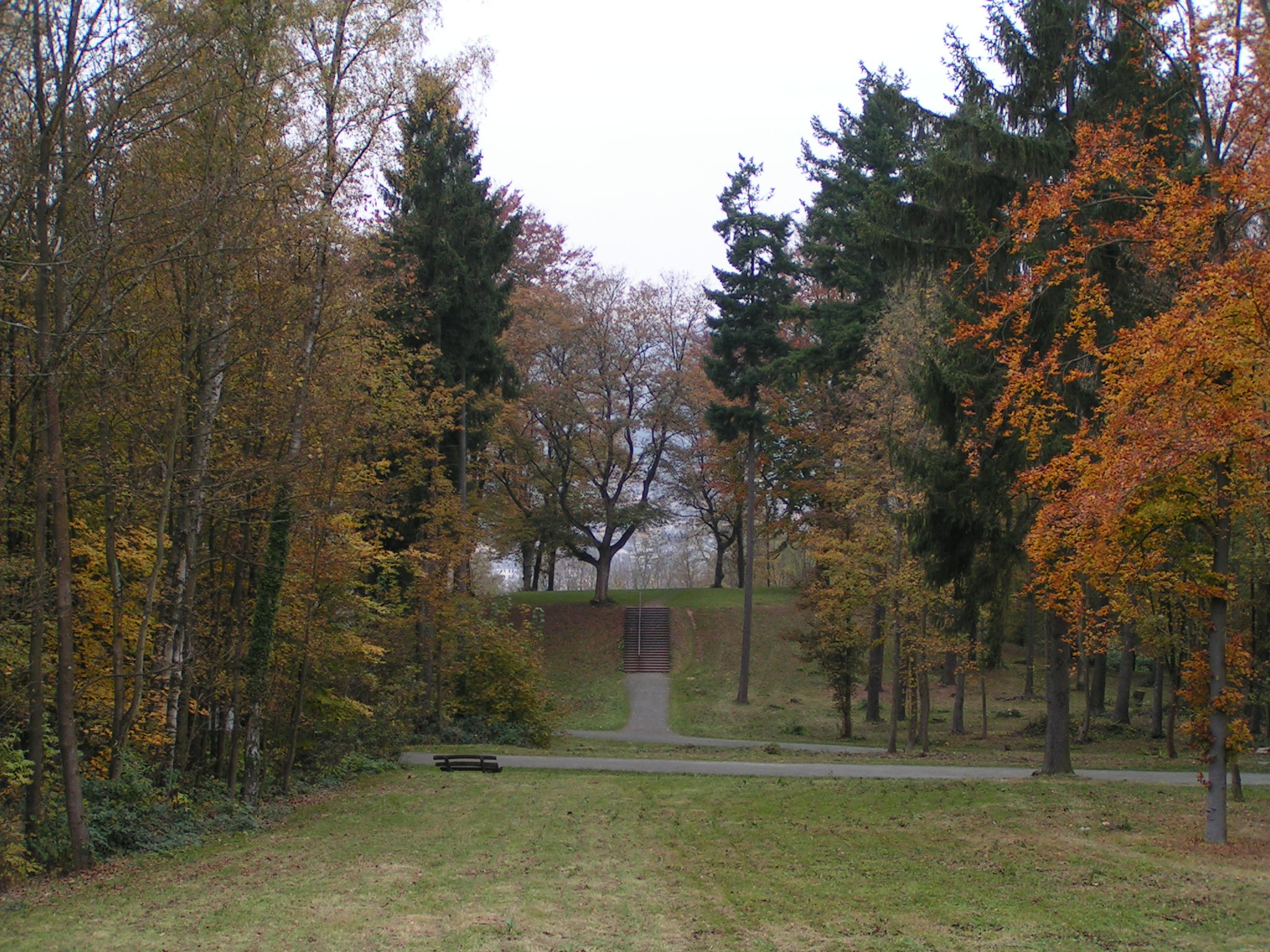 Franzensknüppchen, Trier, Germany